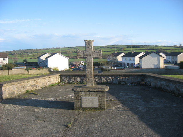 The Berford Cross, Duleek Originally a wayside monument at Downestown, about a mile NW of Duleek. After various moves, erected here, on the road into Duleek from Drogheda, in 1981 by the Duleek Historical Society. Inscription reads: IHS PRAY FOR THE SOULES OF THOMASSINA BERFORD FIRST WIFE TO BERTHELEME MOUR OF DOWANSTOWNE WHO DIED THE 17 OF DECEMBER 1635